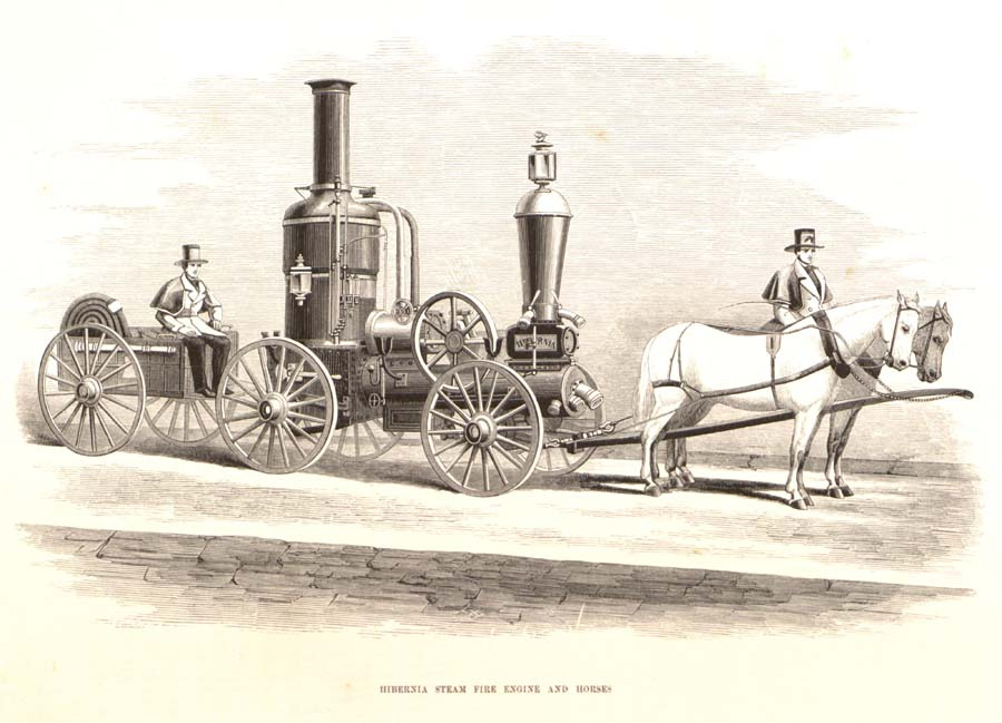 From: Hibernia fire engine company no. 1. have caused this volume to be issued in remembrance of their visit to the cities of New York, Boston, Brooklyn, Charlestown and Newark, in November, 1858 ... and by their brother fireman on their return to the City of Philadelphia (1859), plate (facing page 29). Call number: OC TH9505.P5074 H7 1859 [ Digital Library permanent link ]